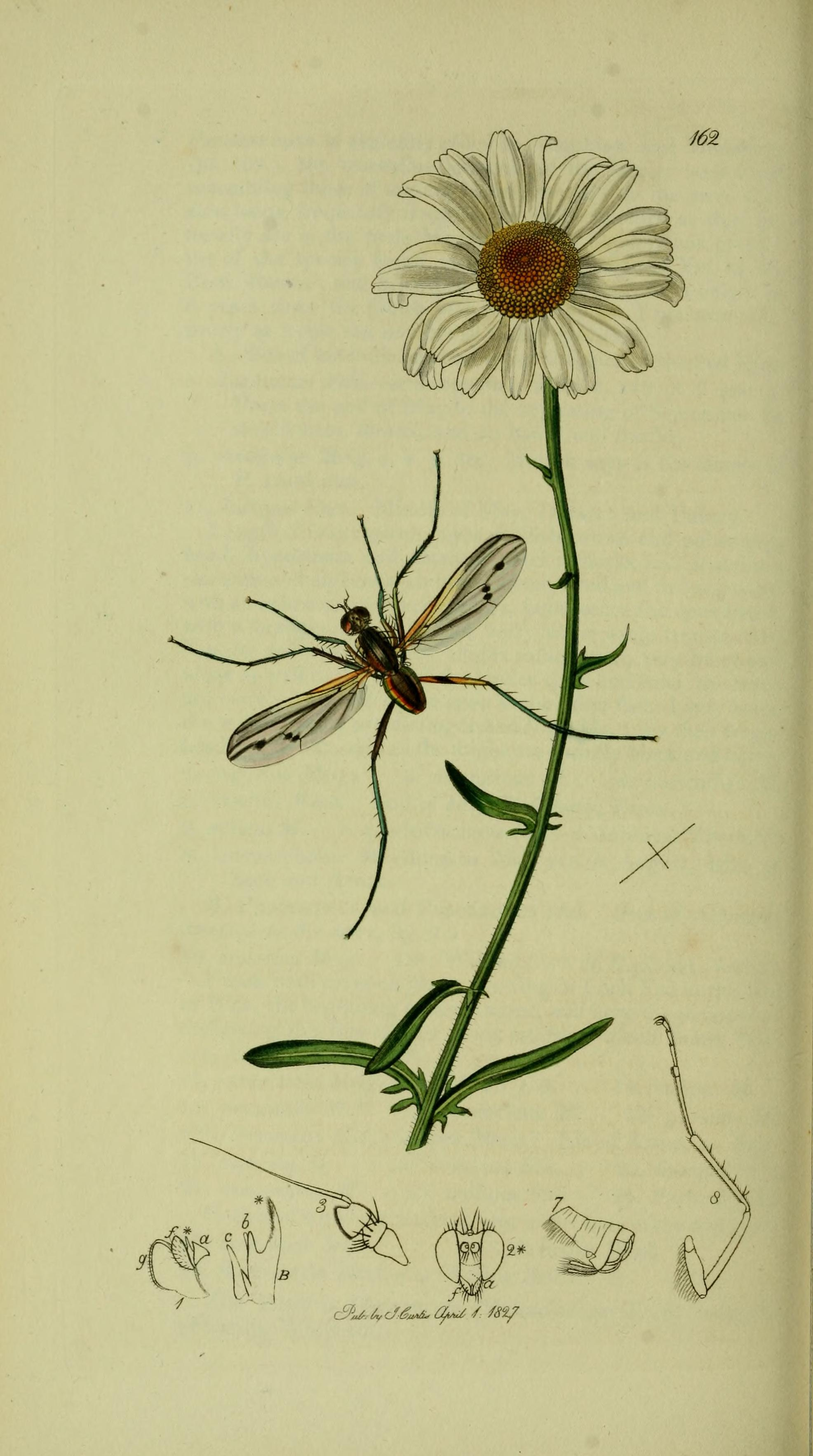 John Curtis British Entomology (1824-1840) Folio 162 Diptera: Medeterus notatus = Scellus notatus (Spotted-winged Medeterus).The plant is Chrysanthemum leucanthemum (Ox-eye)